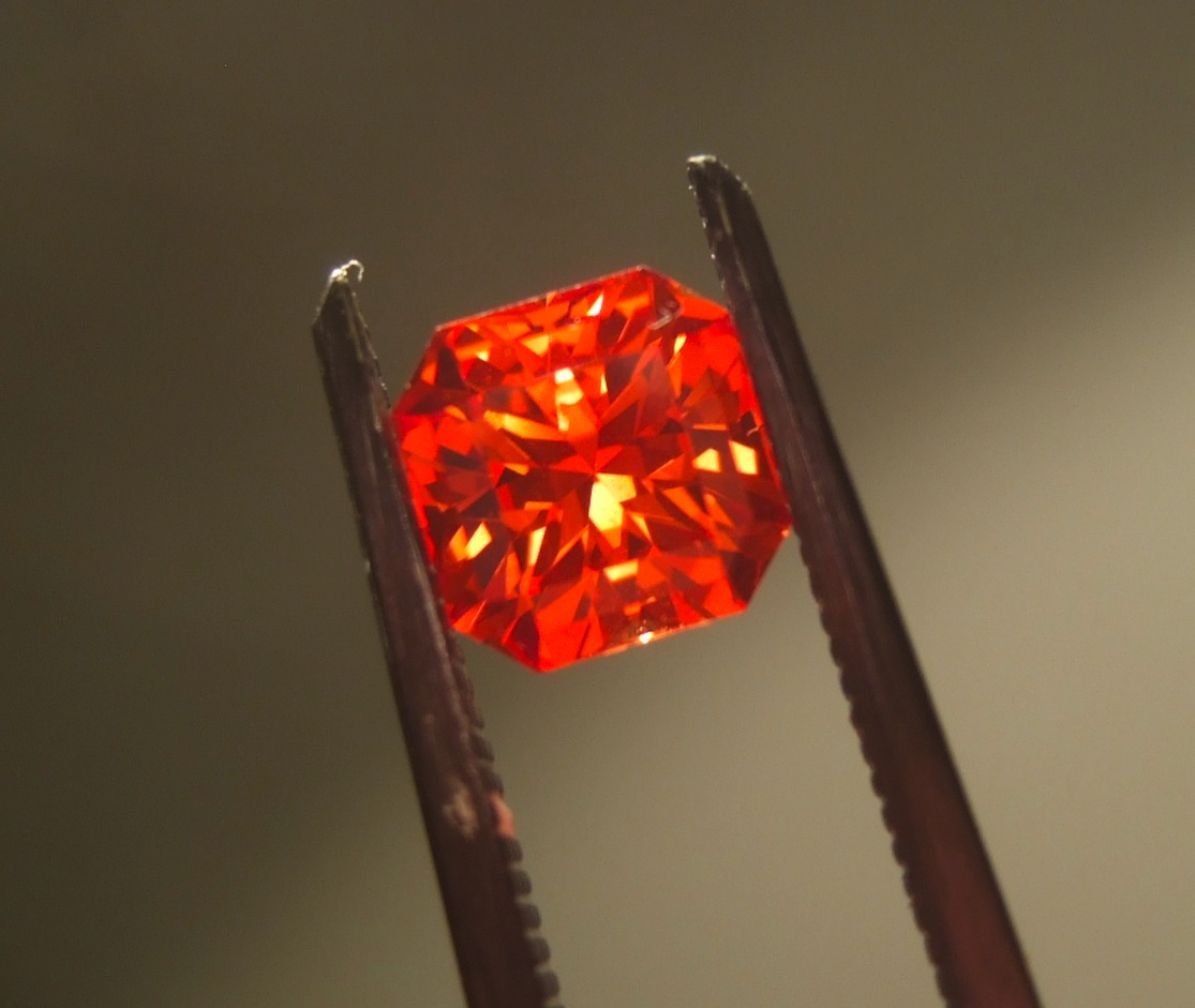 Padparadscha sapphire